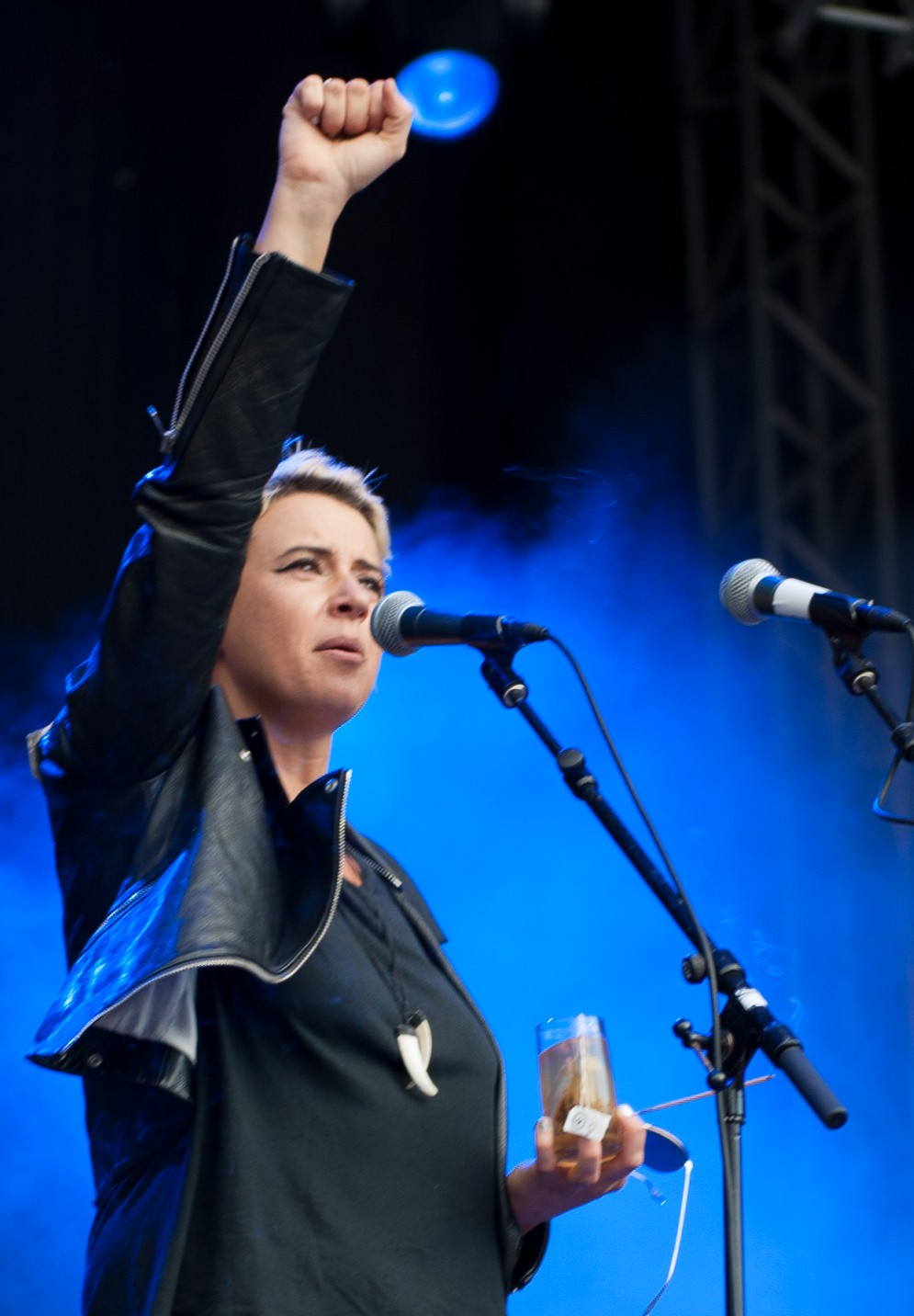 Cat Power (Chan Marshall) at Way Out West 2013 in Gothenburg, Sweden